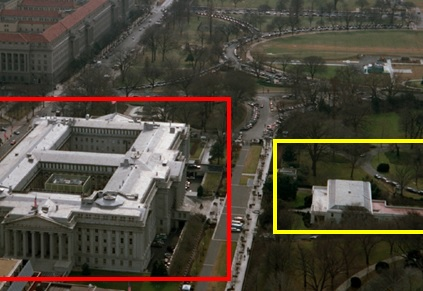 Image showing the relative position of the White House East Wing (yellow) and the Treasury Building (red). Adapted from a U.S. government photograph Other information adapted from original photo by uploader with addition of yellow and red highlighting